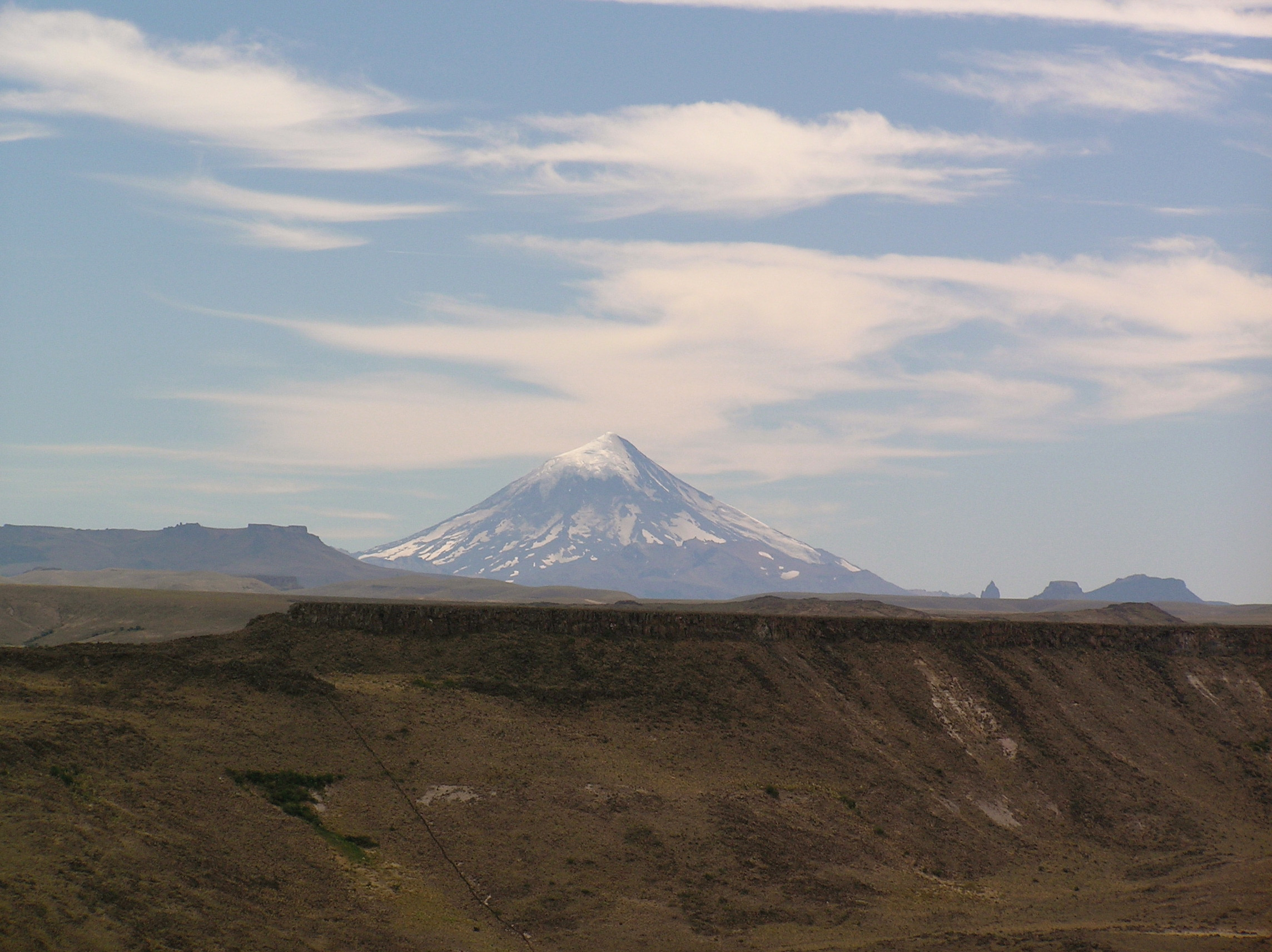 A far off view of Lanin.